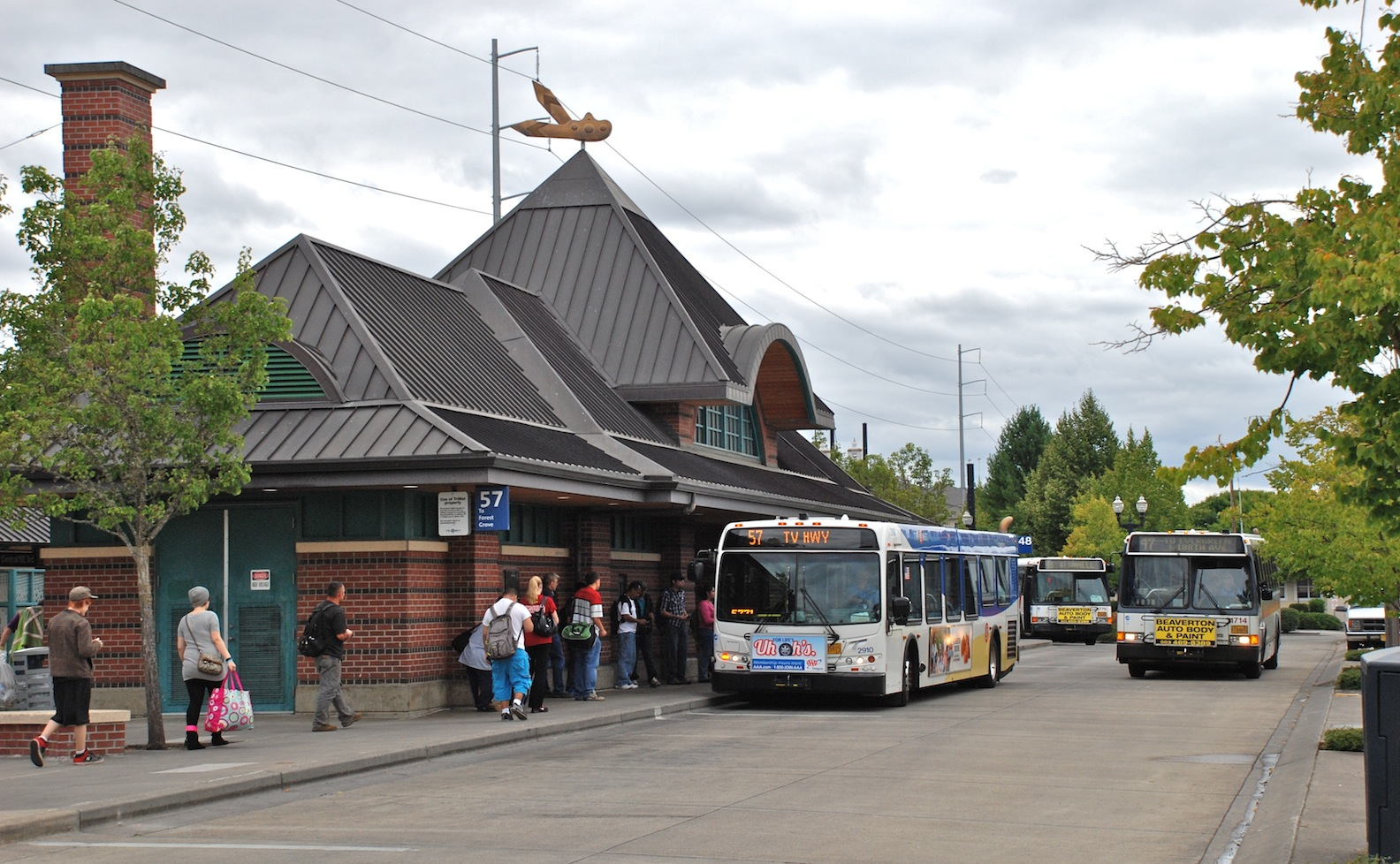 The north side of TriMet's Hillsboro Transit Center during rush hour, with passengers waiting to board a westbound line 57-TV Highway bus. Another bus is arriving on line 47, and a third bus is laying over on line 48. On the opposite side of the building is the Hillsboro Central MAX (light rail) station, and the entire facility is sometimes (but not commonly) referred to as the Hillsboro Central Transit Center. The bus in the center is a 2009 New Flyer D40LFR, and the other two buses are 1992 Flxible Metros.